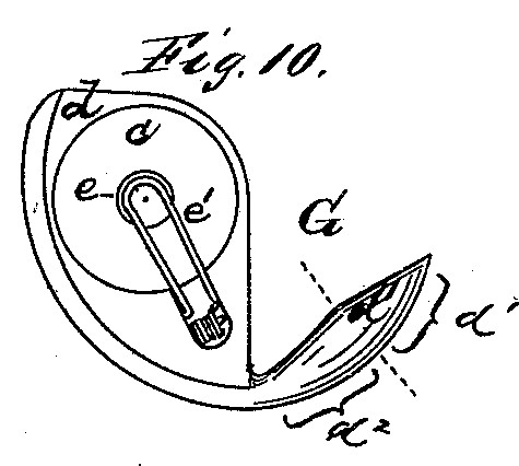 US patent 208838, an oscillating shuttle sewing machine